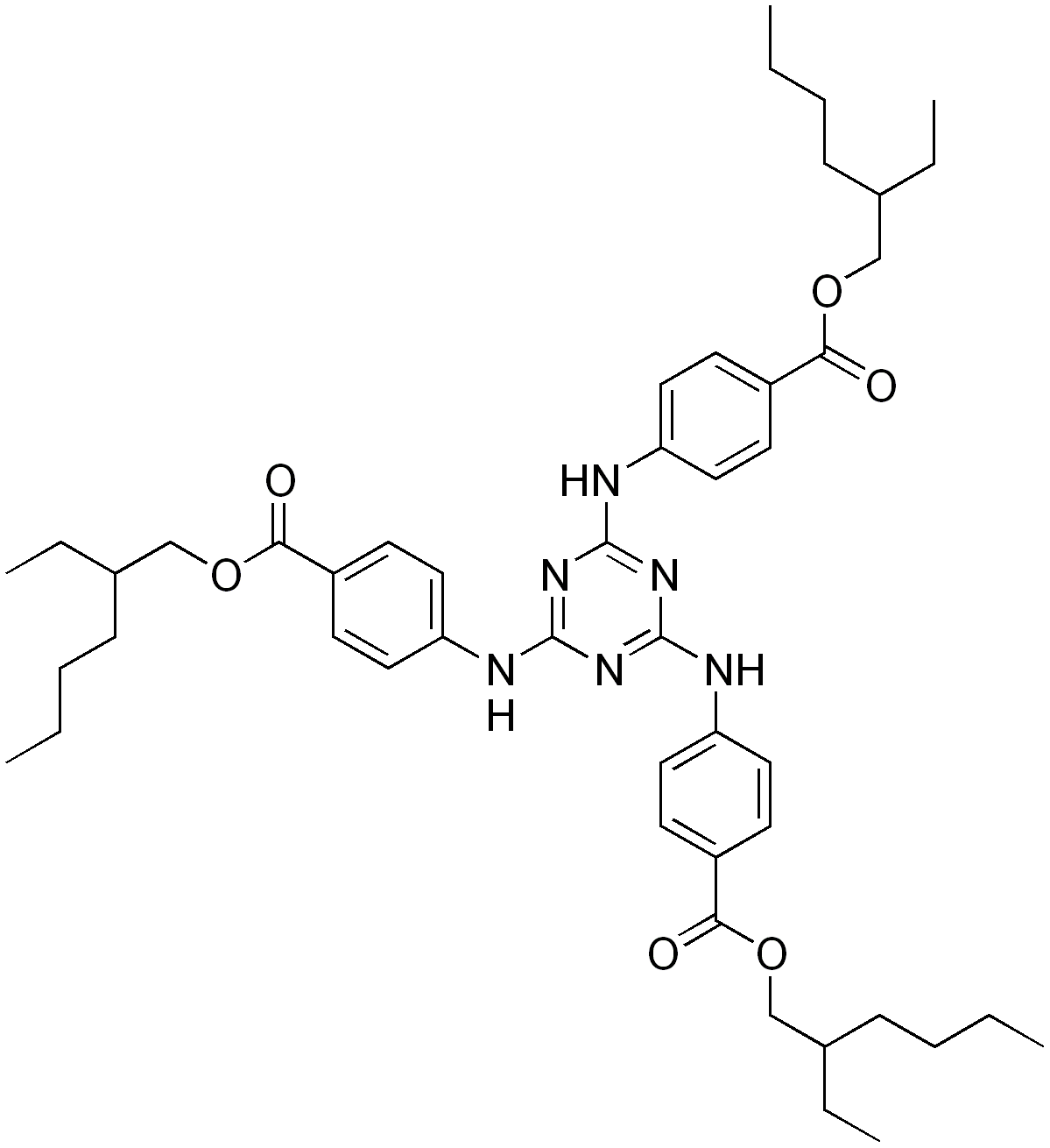 chemical structure of ethylhexyl triazone (octyl triazone, Uvinul T 150)